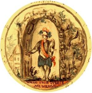 Coat of Arms of Kernavė city in 1792